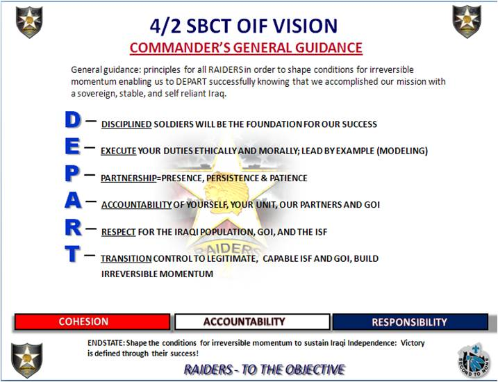 DEPART Slide